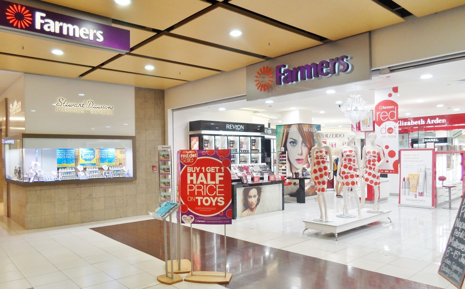 Main, lower-floor entrance of Queensgate branch of New Zealand department store retailer Farmers Trading Company in Westfield Queensgate in Lower Hutt, Wellington region in 2015. Showing Cosmetics department. Also showing Steward Dawsons Queensgate.